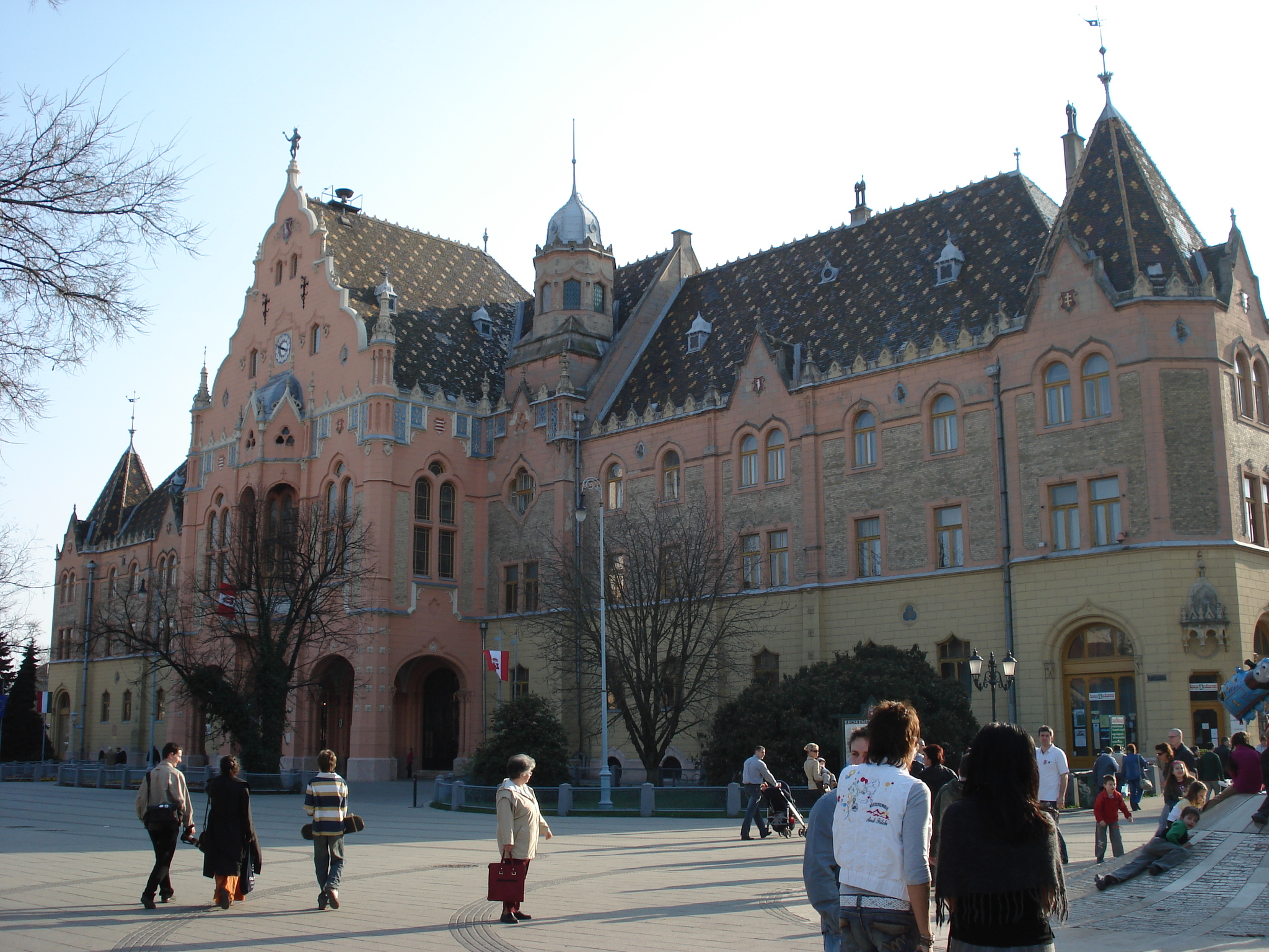 Kecskemet town hall.